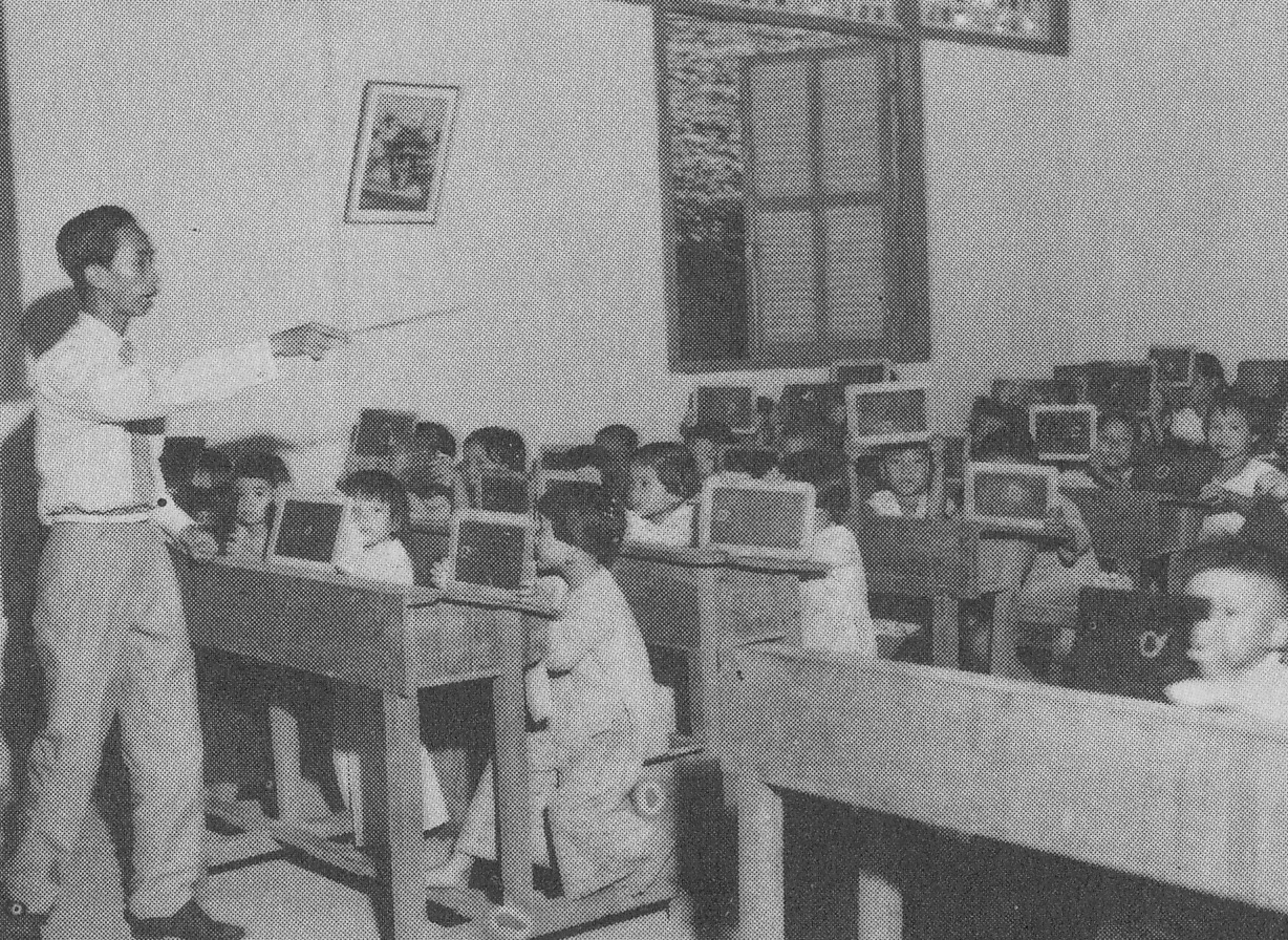 Classroom primary education in the Republic of Vietnam